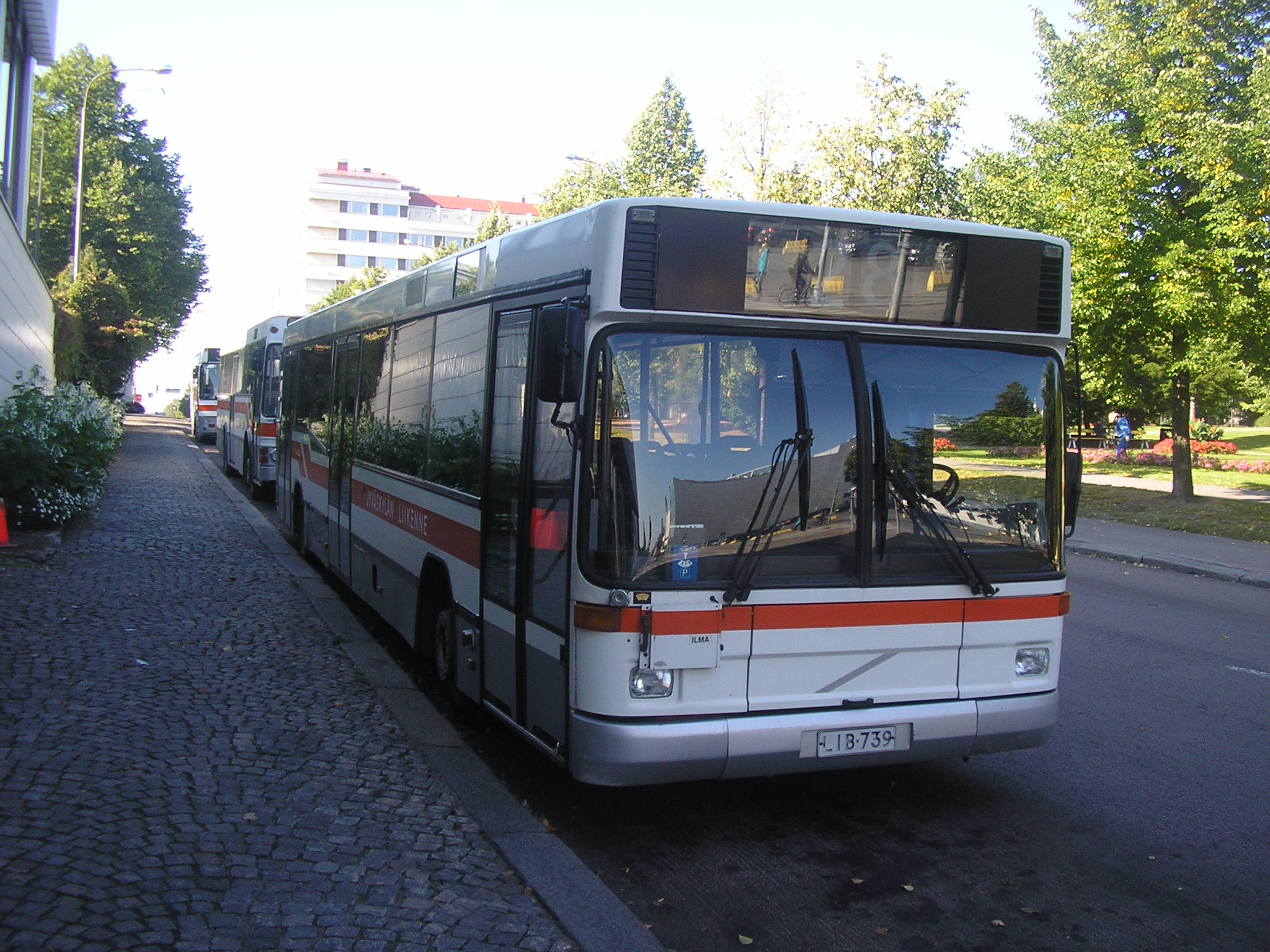 Jyväskylän Liikenne Volvo B10L-73/Carrus City U (Carrus 204U). Built 1998.